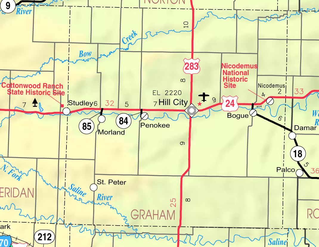 This map of Graham County, Kansas, USA, is copied at a resolution of 300 pixels/inch from the original PDF file.